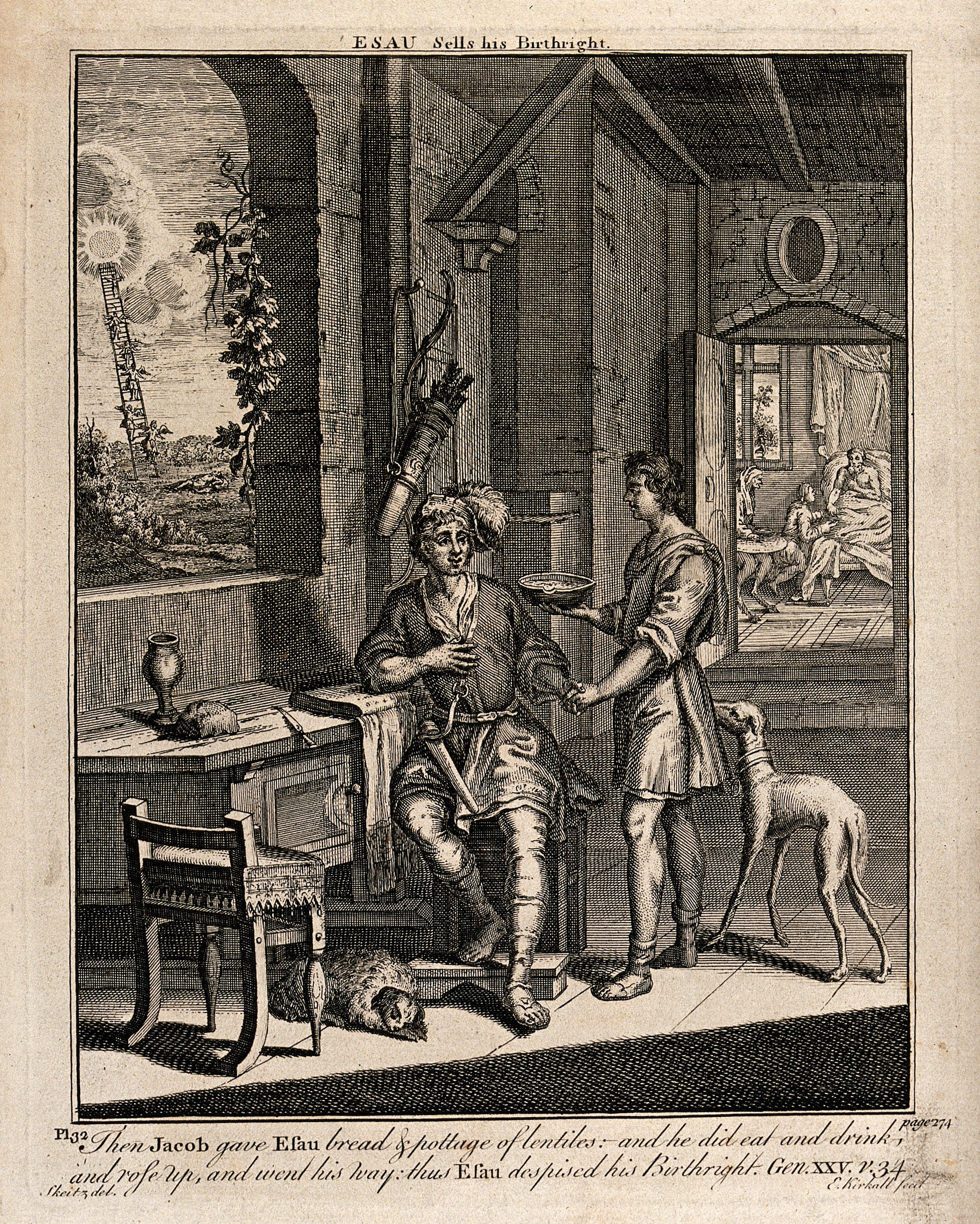 Jacob offers bread and soup to an exhausted Esau, who has returned from hunting; to the left, angels move upon Jacob's ladder; to the right, the blind Isaac feels Jacob's disguised hands. Engraving by E. Kirkall after Skeitz. Iconographic Collections Keywords: Rebekah; Esau; Skeitz; Isaac; Elisha Kirkall; Jacob